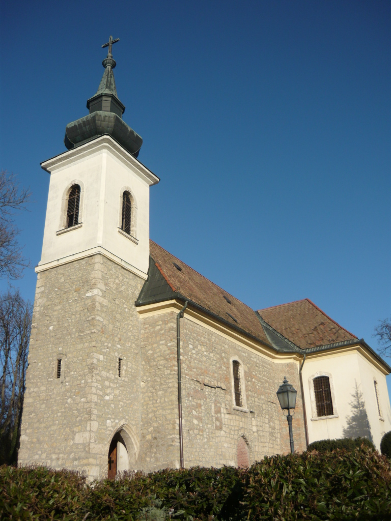 Evangelical church of Cinkota, Budapest